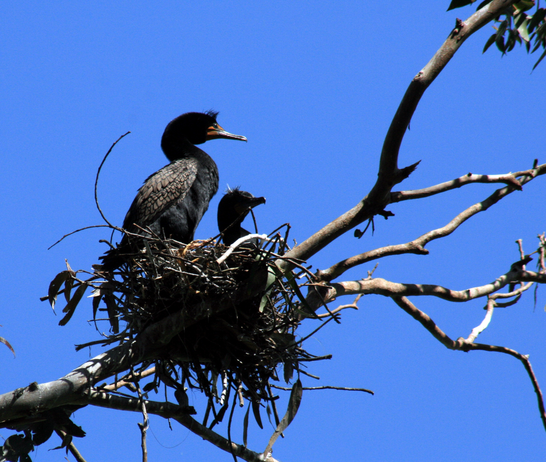 Double-crested Cormorants,Phalacrocorax auritus at the nest in San Francisco